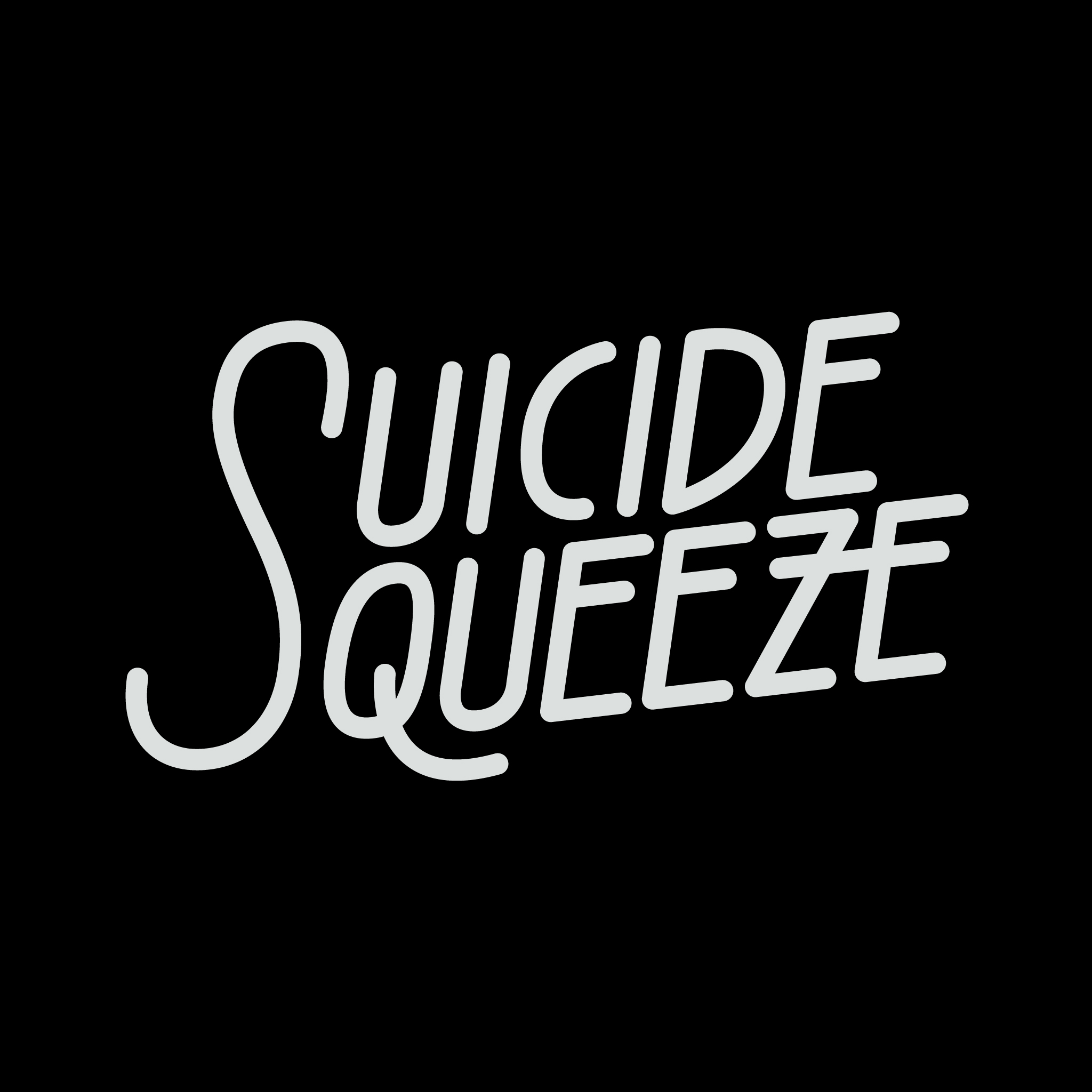 Official logo of Suicide Squeeze Records